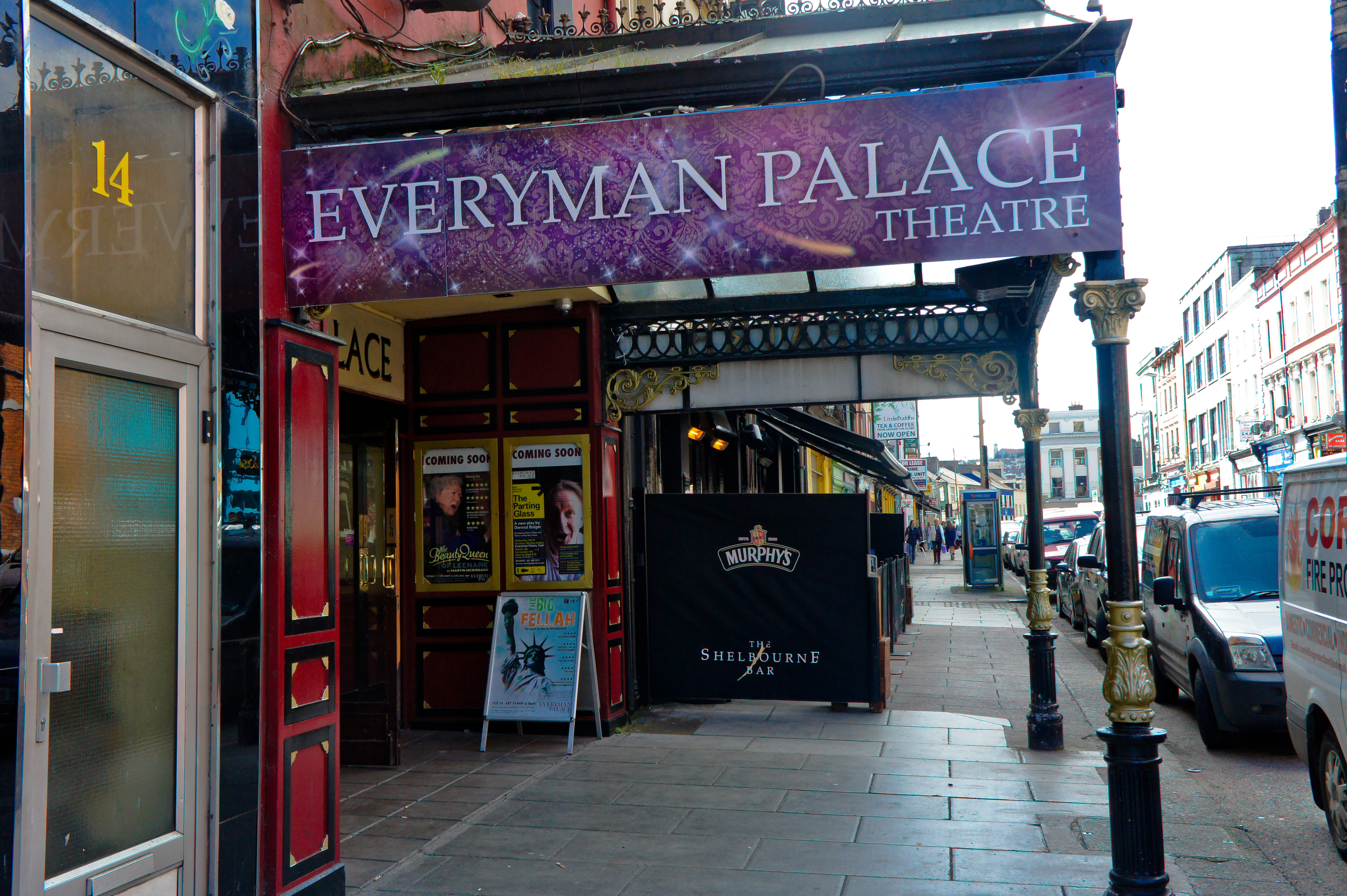 The Everyman Palace Theatre is one of Ireland’s leading middle scale presenting and producing theatres. The beautiful 650 seat theatre is a jewel of late Victorian architecture. A listed building, the theatre is steeped in history and is a favorite with audiences and performers alike for its intimacy and atmosphere.